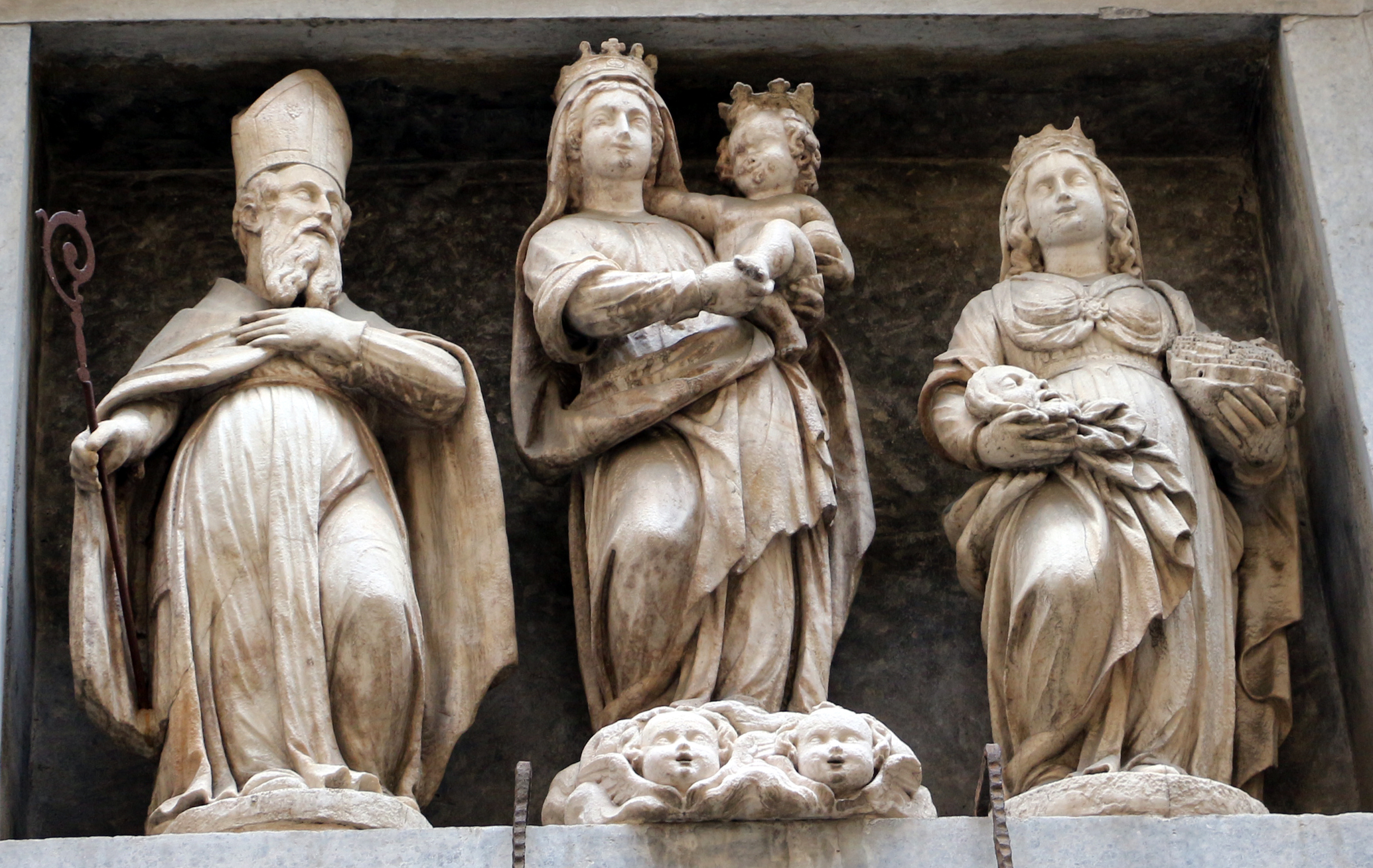 Santa Grata (Bergamo)